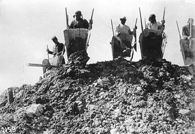 the prisoners' labour at the Belomorkanal construction site